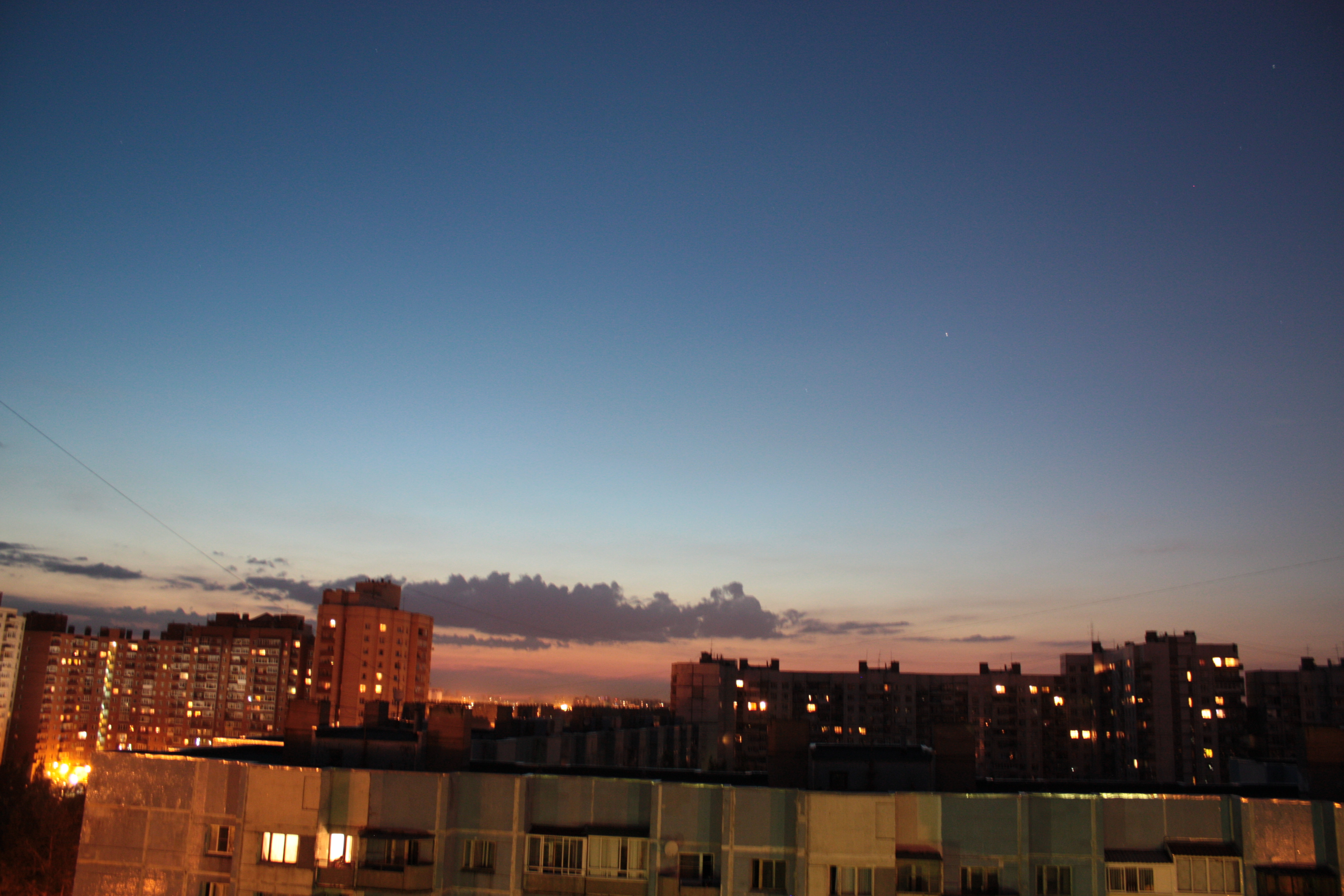 White night in St. Petersburg, a month after the summer solstice.